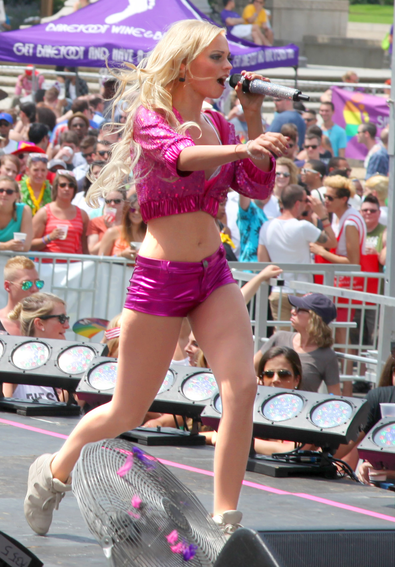 Katja Glieson Performing Live on the Mainstage at Capital Pride in 2014